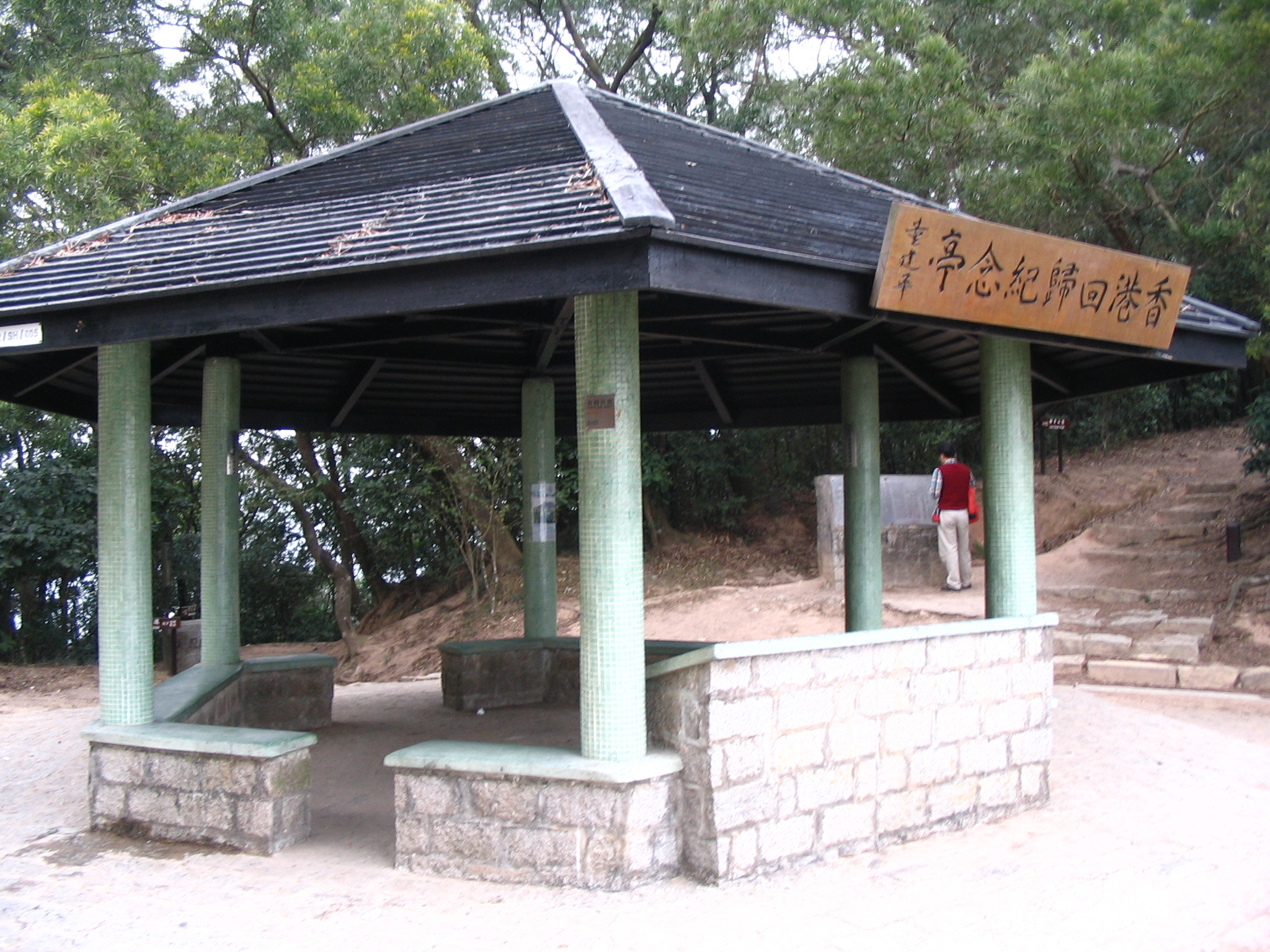 Photo of Reunification Pavilion